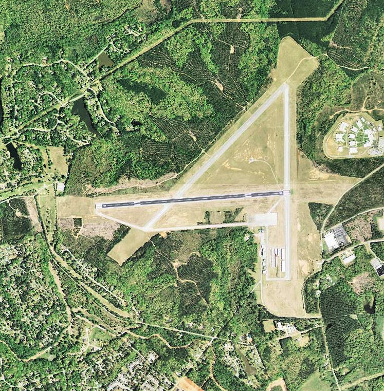 USGS digital orthophoto of Greenwood County Airport in South Carolina